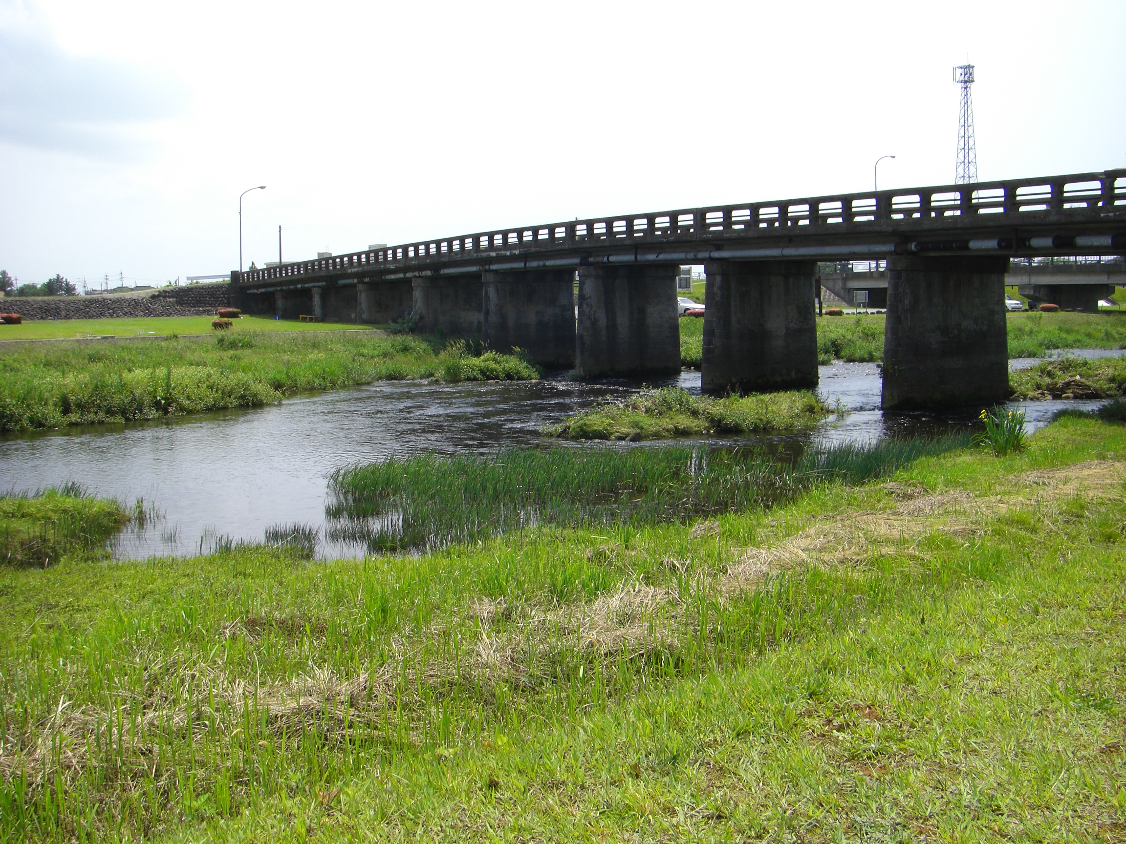 The Gakkō River in Yuza, Yamagata, Japan.